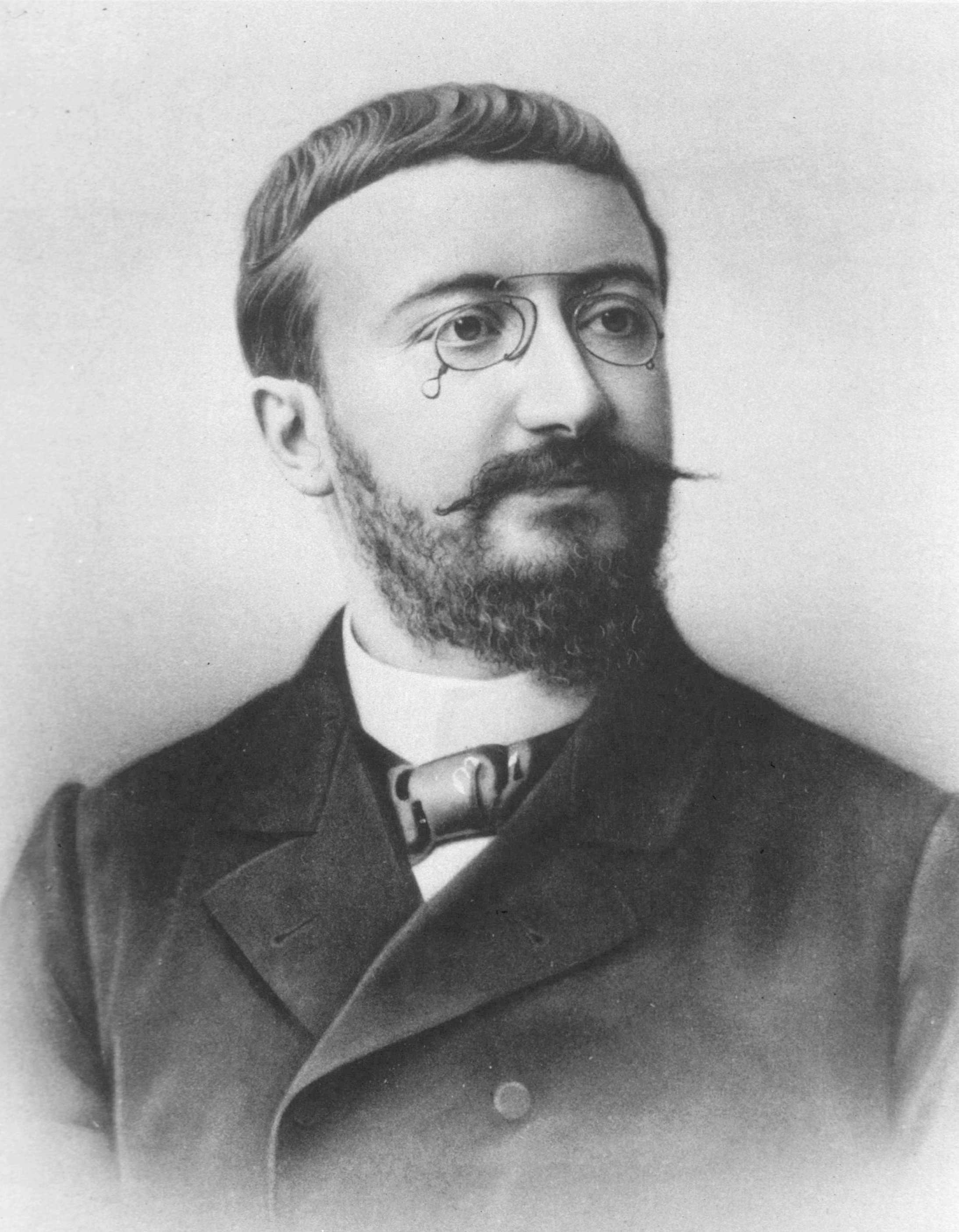 Alfredo Benet Junior (July 11, 1857 – October 18, 1911)